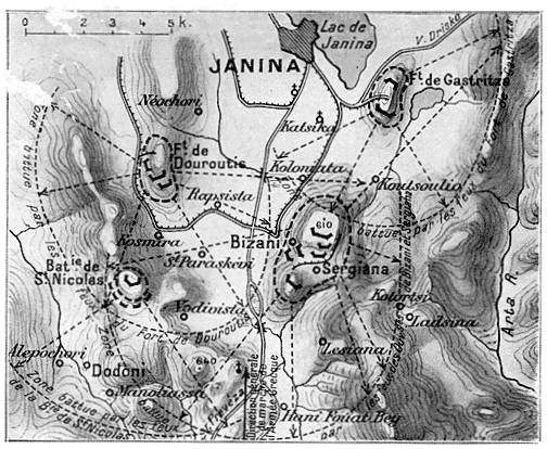 Map of the Ottoman fortifications around Ioannina